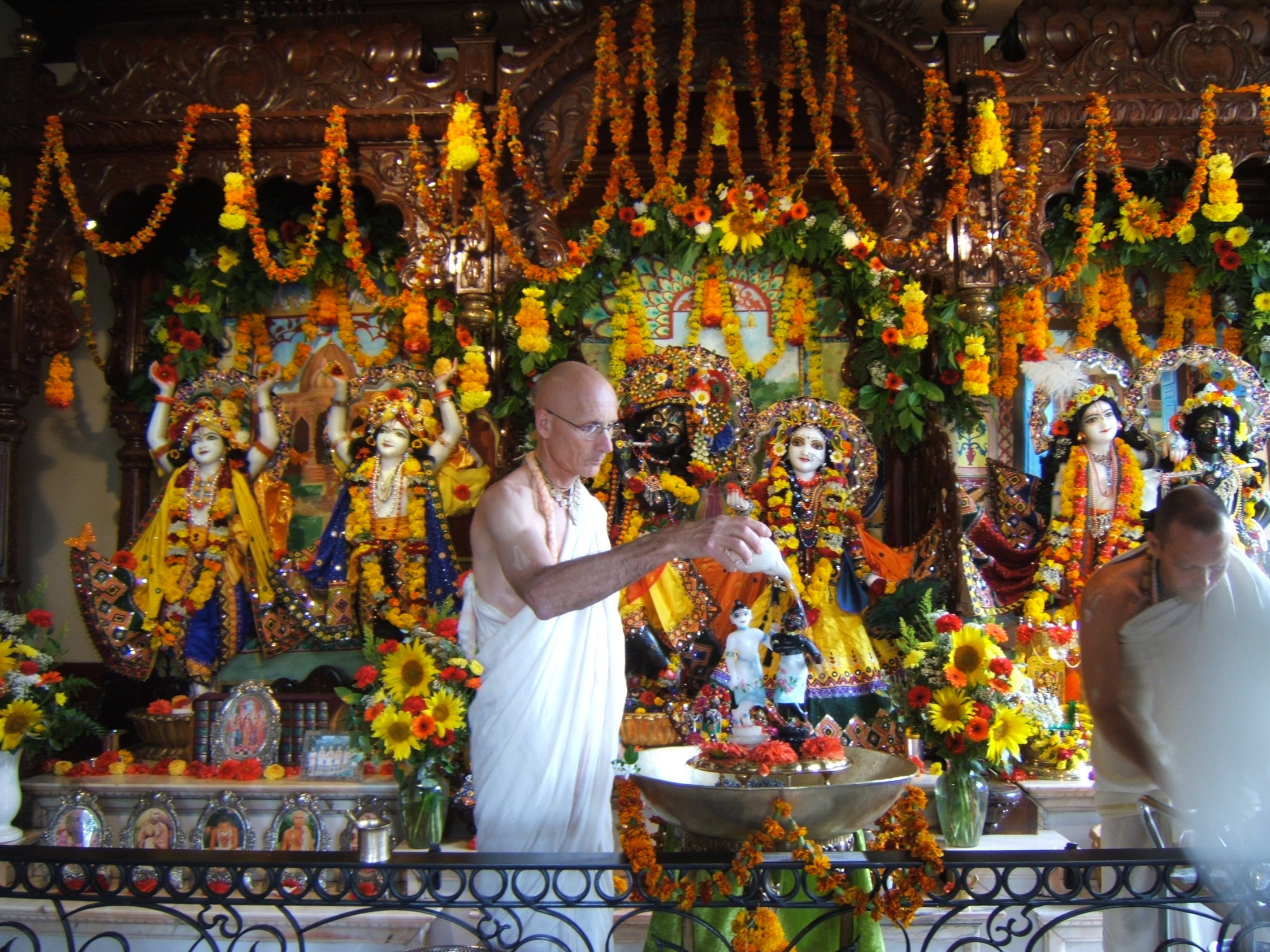 Abhisheka at New Mayapur Hare Krishna community in the department of Indre in central France. The place is also known as Château d'Oublaisse.